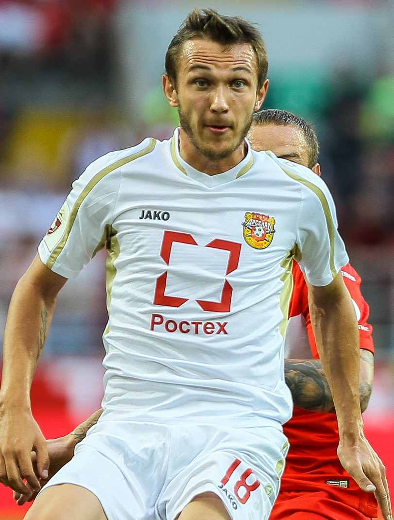 Nikita Burmistrov